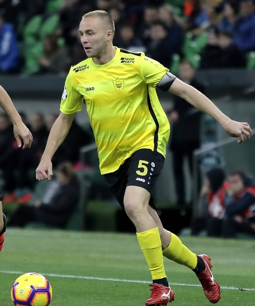 Vladislav Kulik with FC Anzhi Makhachkala in a game against FC Krasnodar.